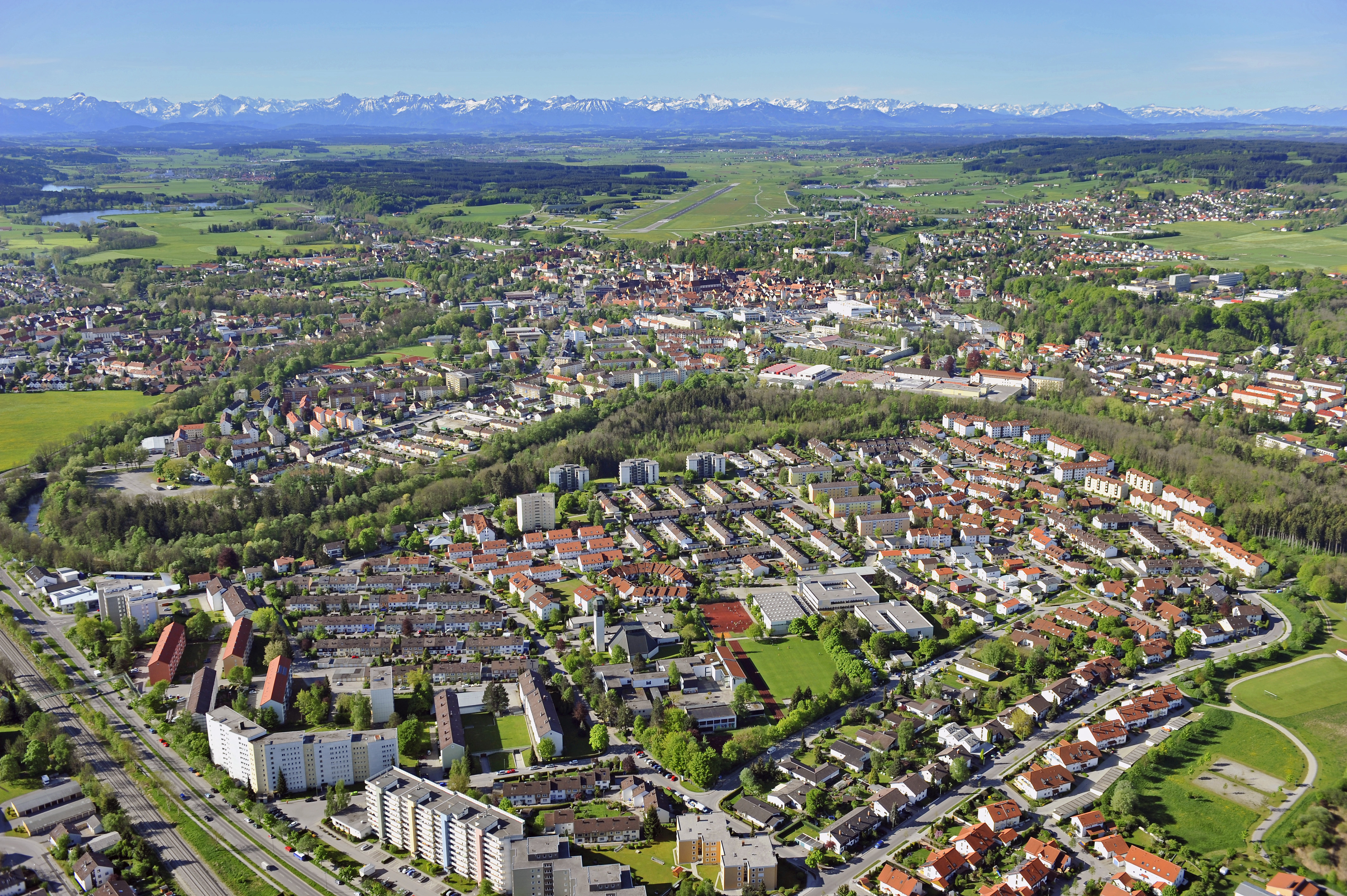 Kaufbeuren "Am Haken", aerial view